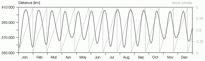 Distance and moon phases in 2014, calculated using algorithms from: Jean Meeus, Astronomical algorithms, Willmann-Bell, Richmond, Virginia, 1991 Jean Meeus, Astronomical formulae for calculators, Willmann-Bell, Richmond, Virginia, 1988. Moon phases: 0 (1) - new moon 0.25 - first quarter 0.5 - full moon 0.75 - last quarter